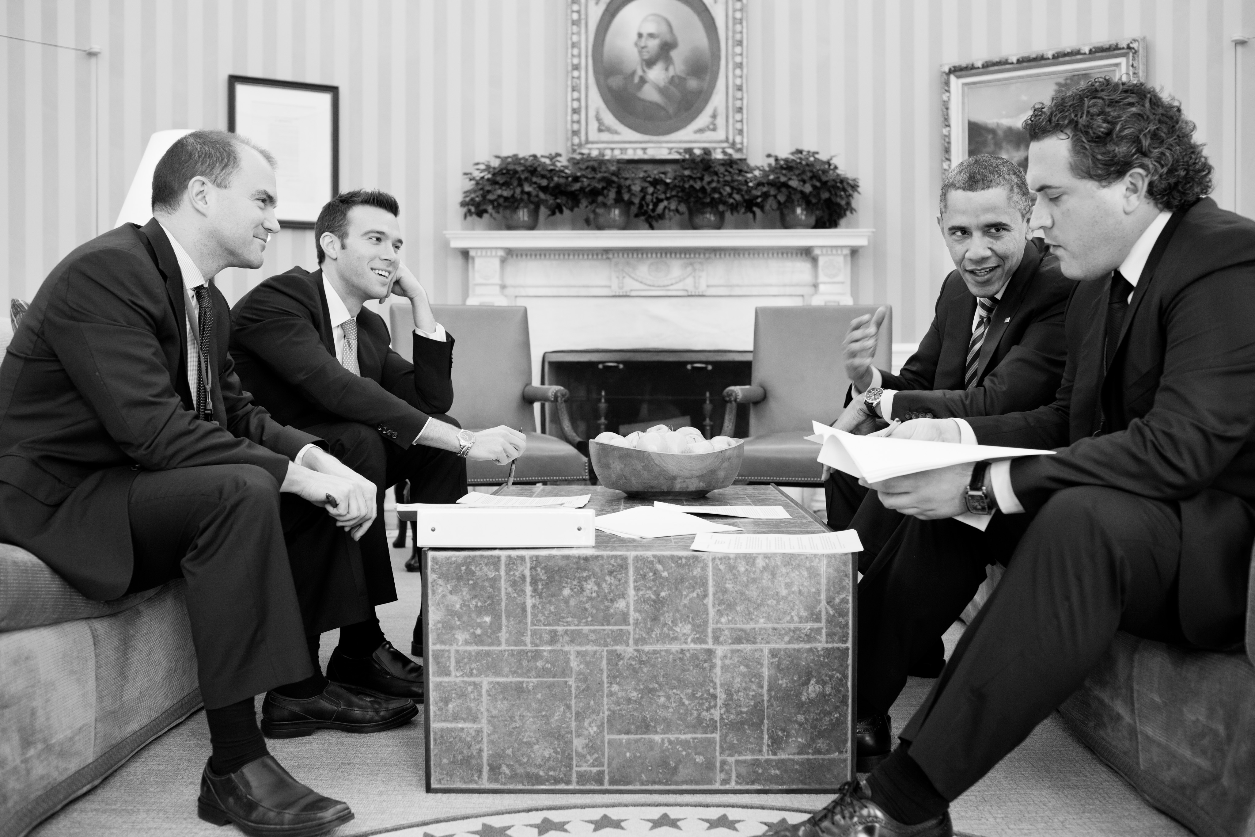 President Barack Obama has State of the Union prep time in the Oval Office, Feb. 12, 2013. Participating are: Director of Speechwriting Jon Favreau; Cody Keenan, Deputy Director of Speechwriting; and Ben Rhodes, Deputy National Security Advisor for Strategic Communications. (Official White House Photo by Pete Souza)